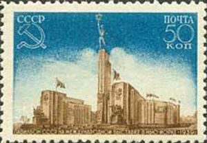 Stamp of the USSR 1939: USSR Pavilion. Series: USSR Participation in the 1939 New York World’s Fair